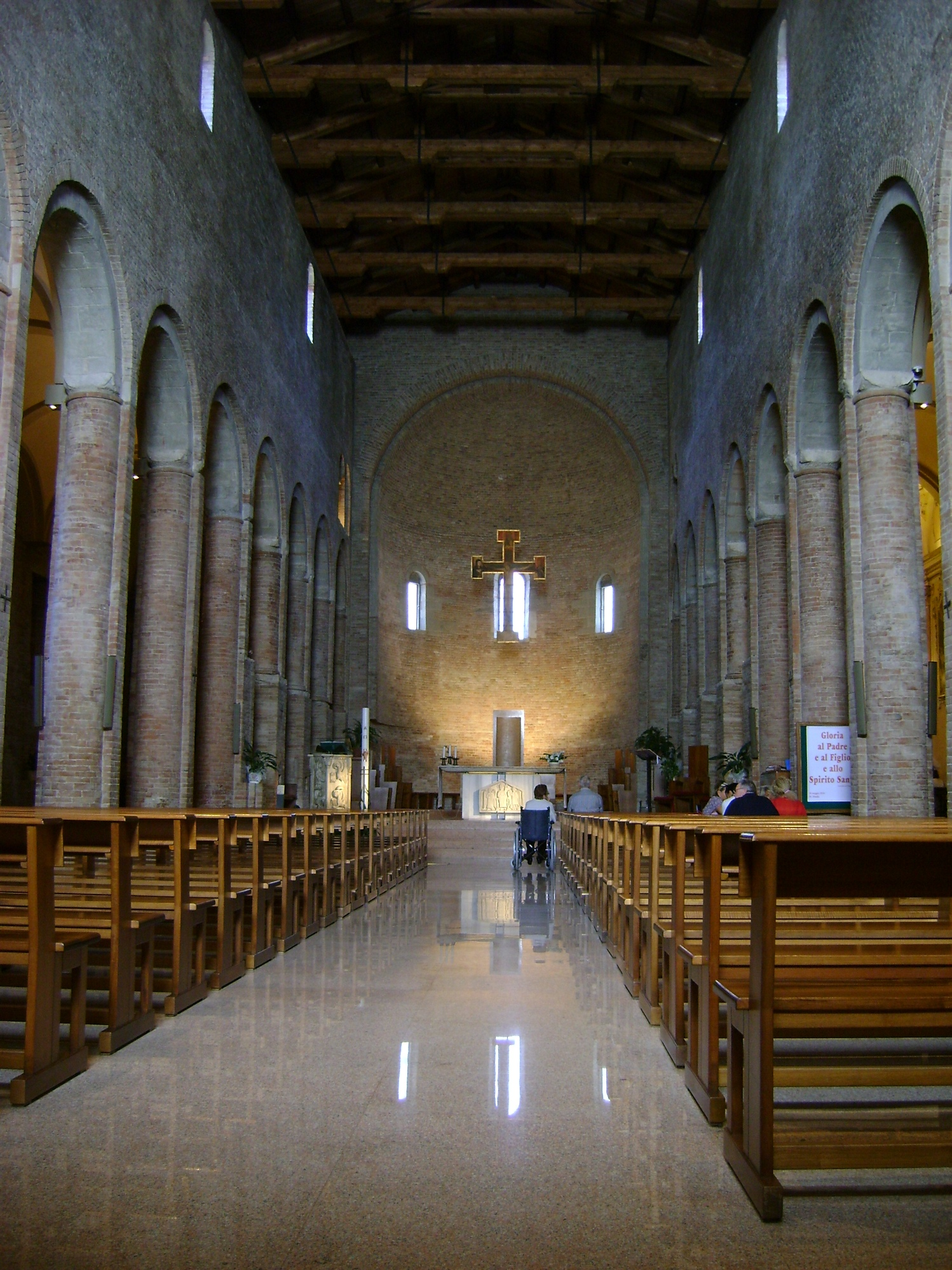 The interior of the Basilica of St. Vicinio in Sarsina, in the province of Forlì-Cesena, Emilia-Romagna